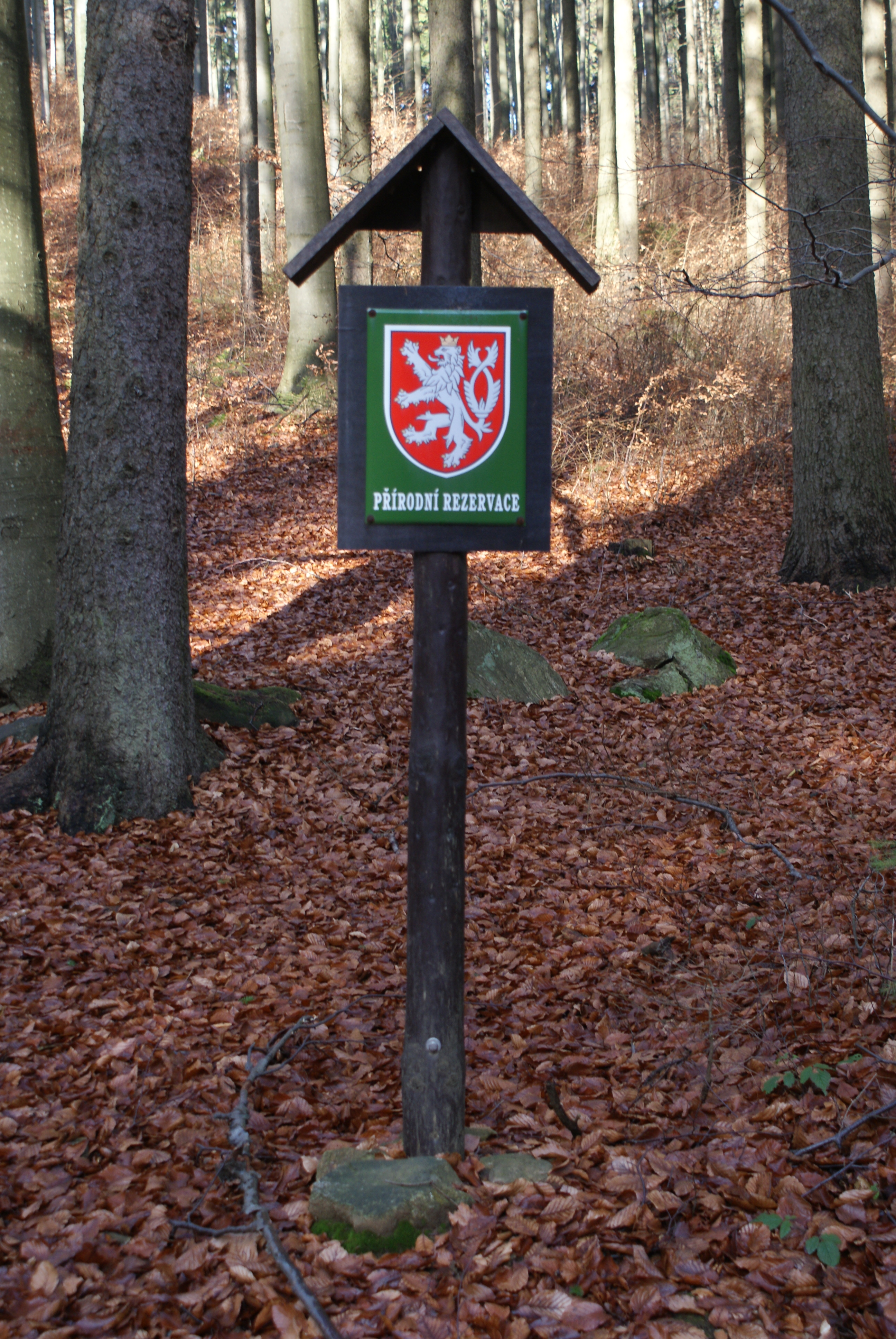 Prirodni rezervace Kremesnik